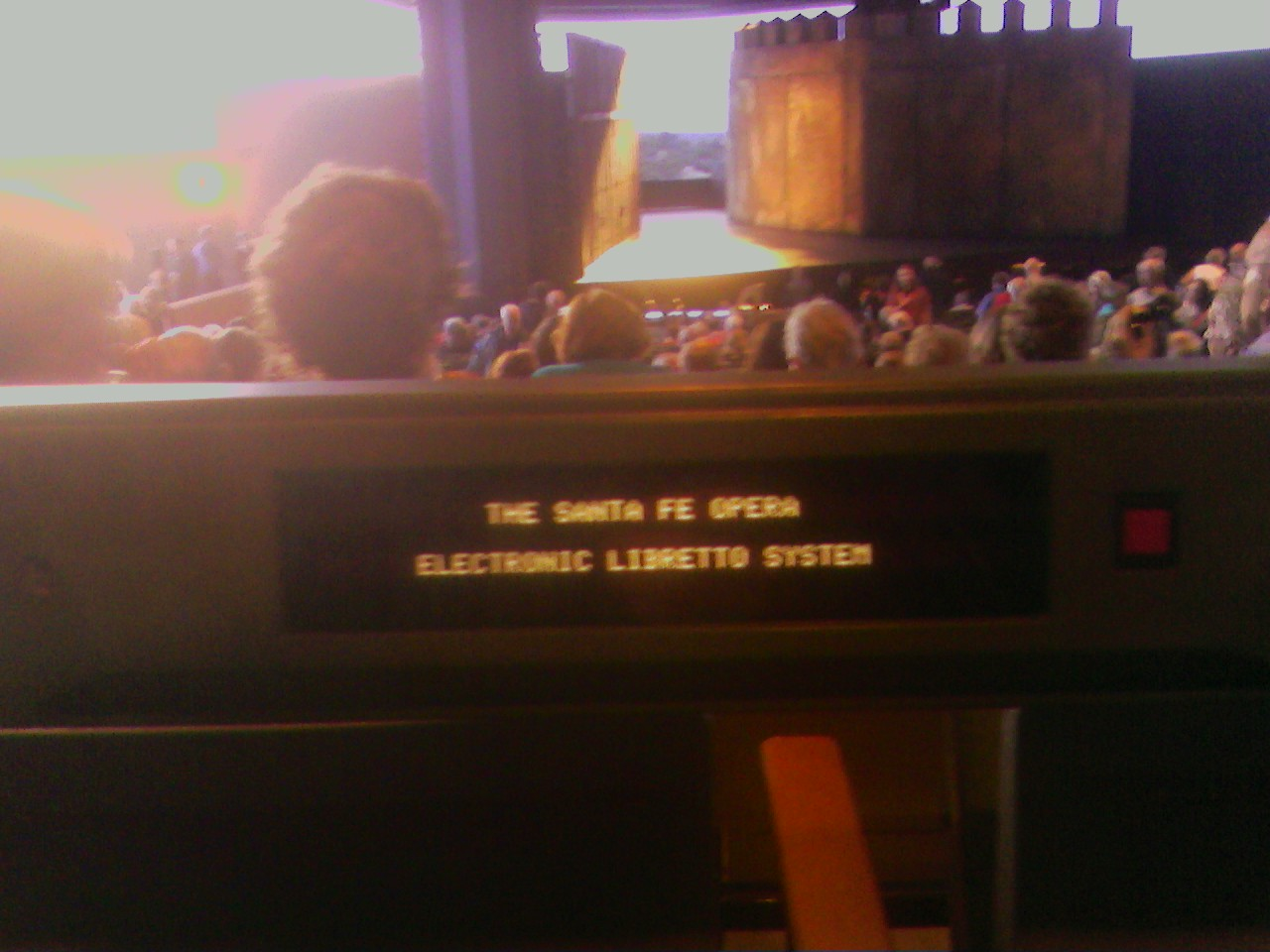 Subtitles at the Santa Fe Opera